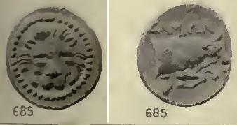 Greek coins and their parent cities (1902) Author: Ward, John, 1832-1912; Hill, George Francis, Sir, 1867-1948 Subject: Coins, Greek; Numismatics, Greek; Greece -- Description, geography; Italy -- Description and travel; Turkey -- Description and travel Publisher: London : Murray Possible copyright status: NOT_IN_COPYRIGHT Language: English Call number: AKB-0671 Digitizing sponsor: MSN Book contributor: Robarts - University of Toronto Collection: toronto Scanfactors: 7